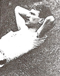 Sidney Robinson, athlet, three times medalwinner at the 1900 Olympic Games photography, adapted reproduction, no restrictions on use Copyright: free of charges